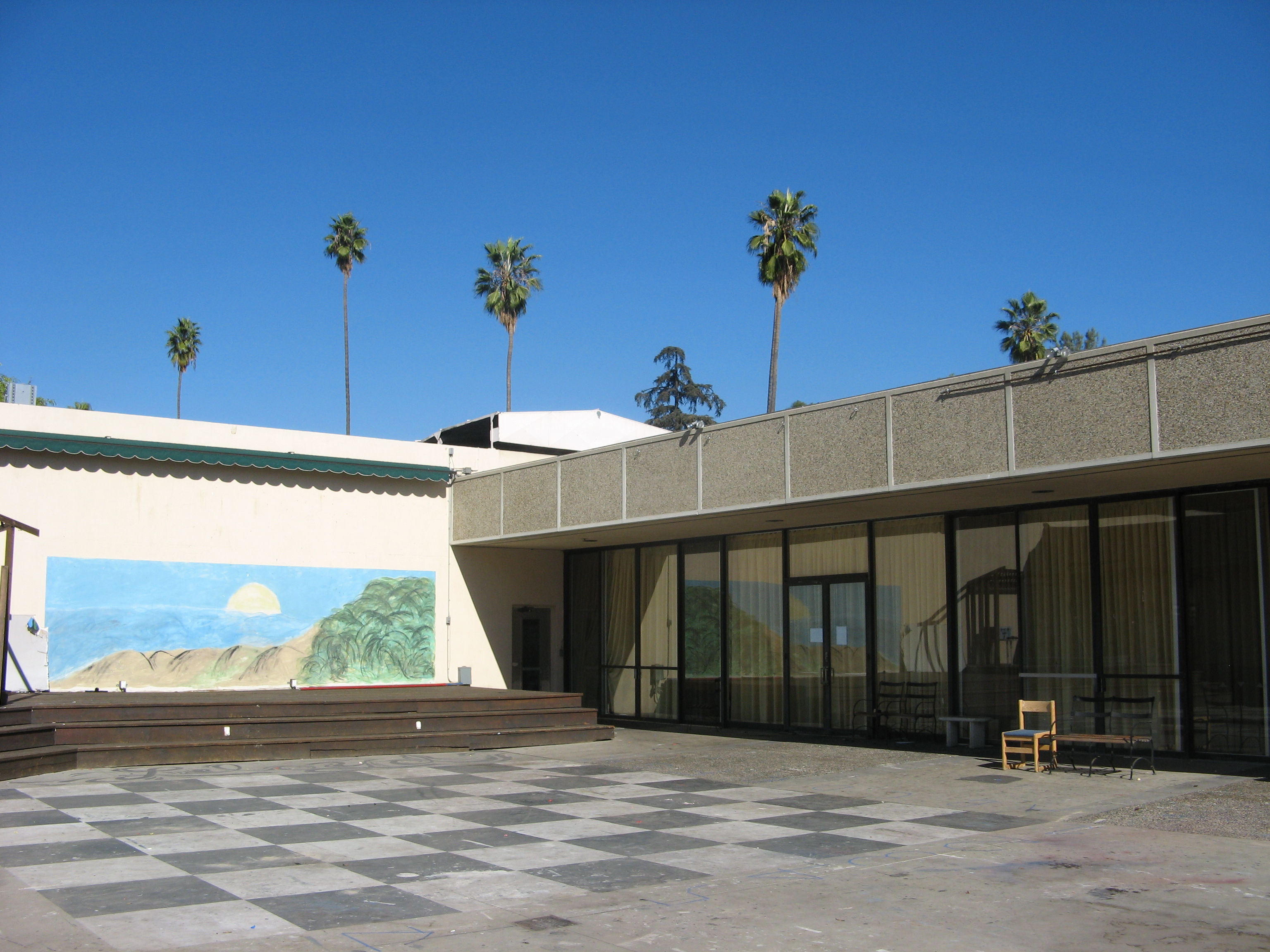 Lloyd House courtyard at the California Institute of Technology in November 2008.